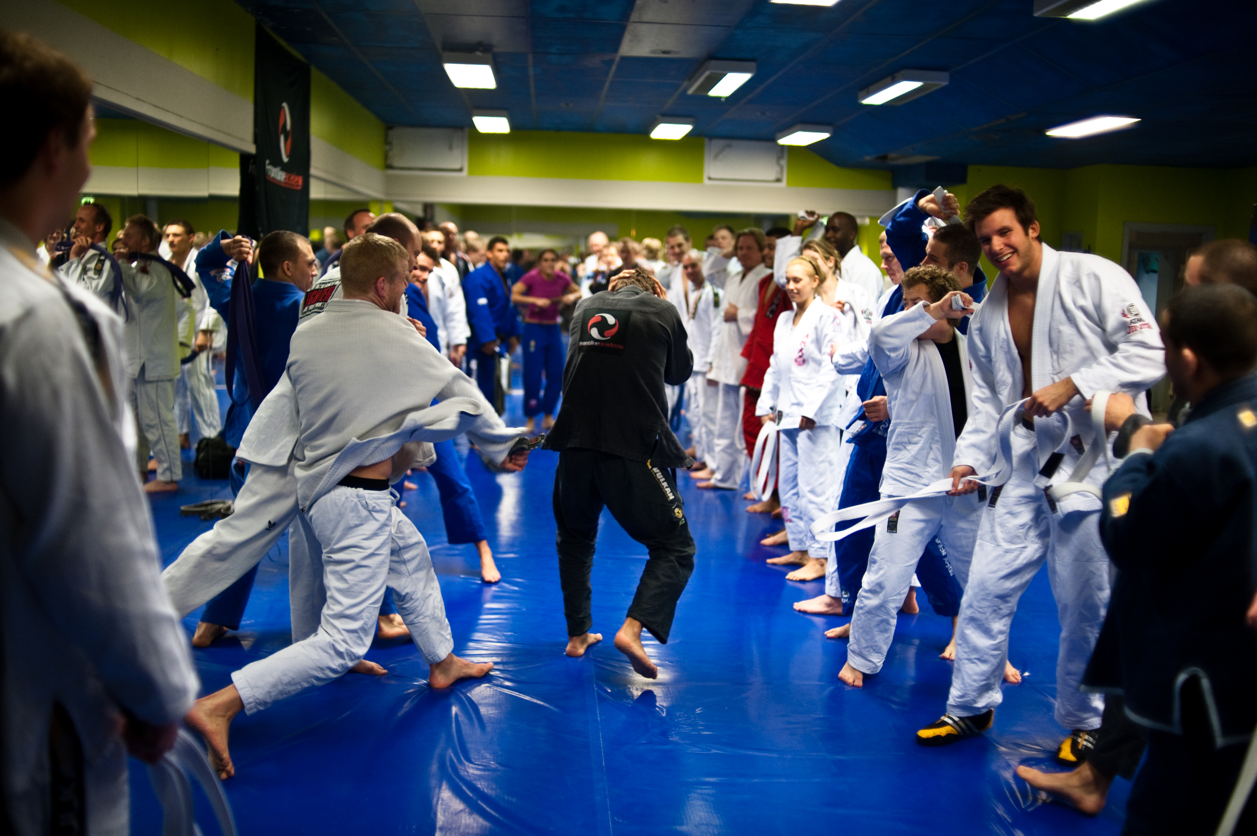 An example of running the gauntlet for belt promotions in Brazilian Jiu-Jitsu